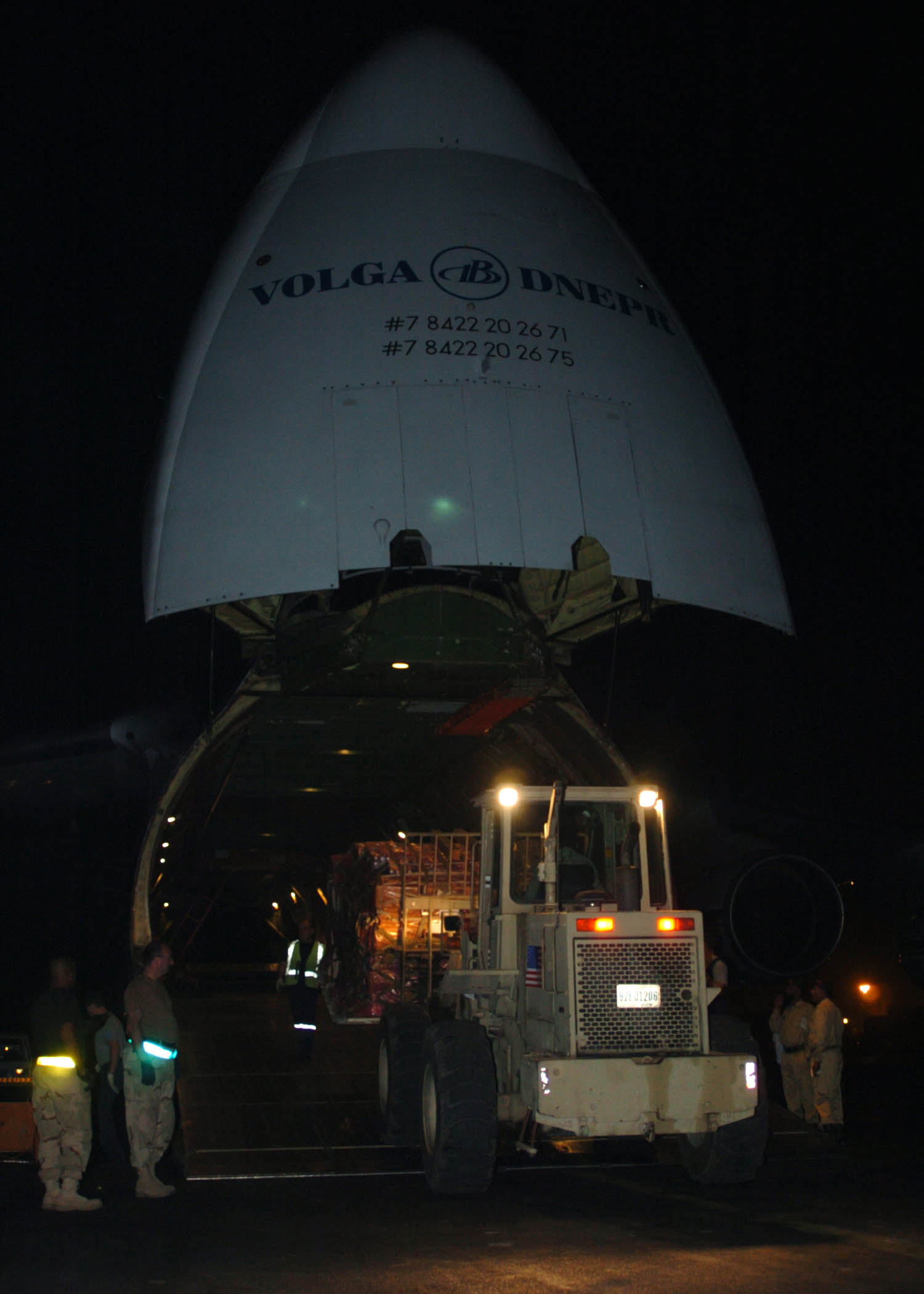 Islamabad, Pakistan (Oct. 23, 2005) - Seabees assigned to Naval Mobile Construction Battalion Seven Four (NMCB-74) offload equipment and supplies from a Russian cargo plane in Islamabad, Pakistan. The United States is participating in a multi-national assistance and support effort led by the Pakistani Government to bring aid to the victims of the devastating earthquake that struck the region on October 8th, 2005. U.S. Navy photo by Photographer's Mate 2nd Class Eric S. Powell (RELEASED)